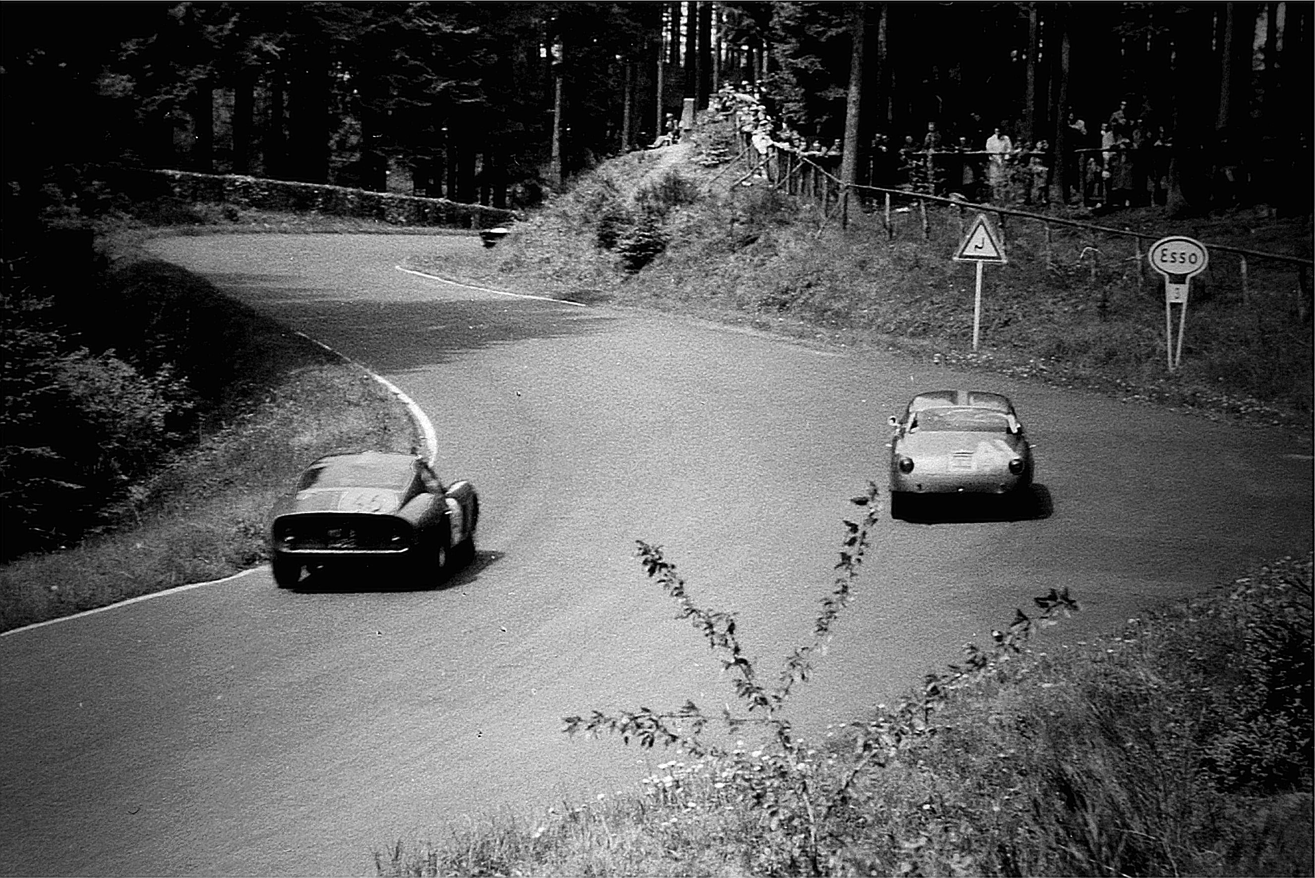 Ferrari 250 GTO #3943GT (Noblet/Guichet) and a Lancia Flaminia Zagato (Davis/Prior, owned by Anatoly "Toly" Aratunoff[1]).[2]